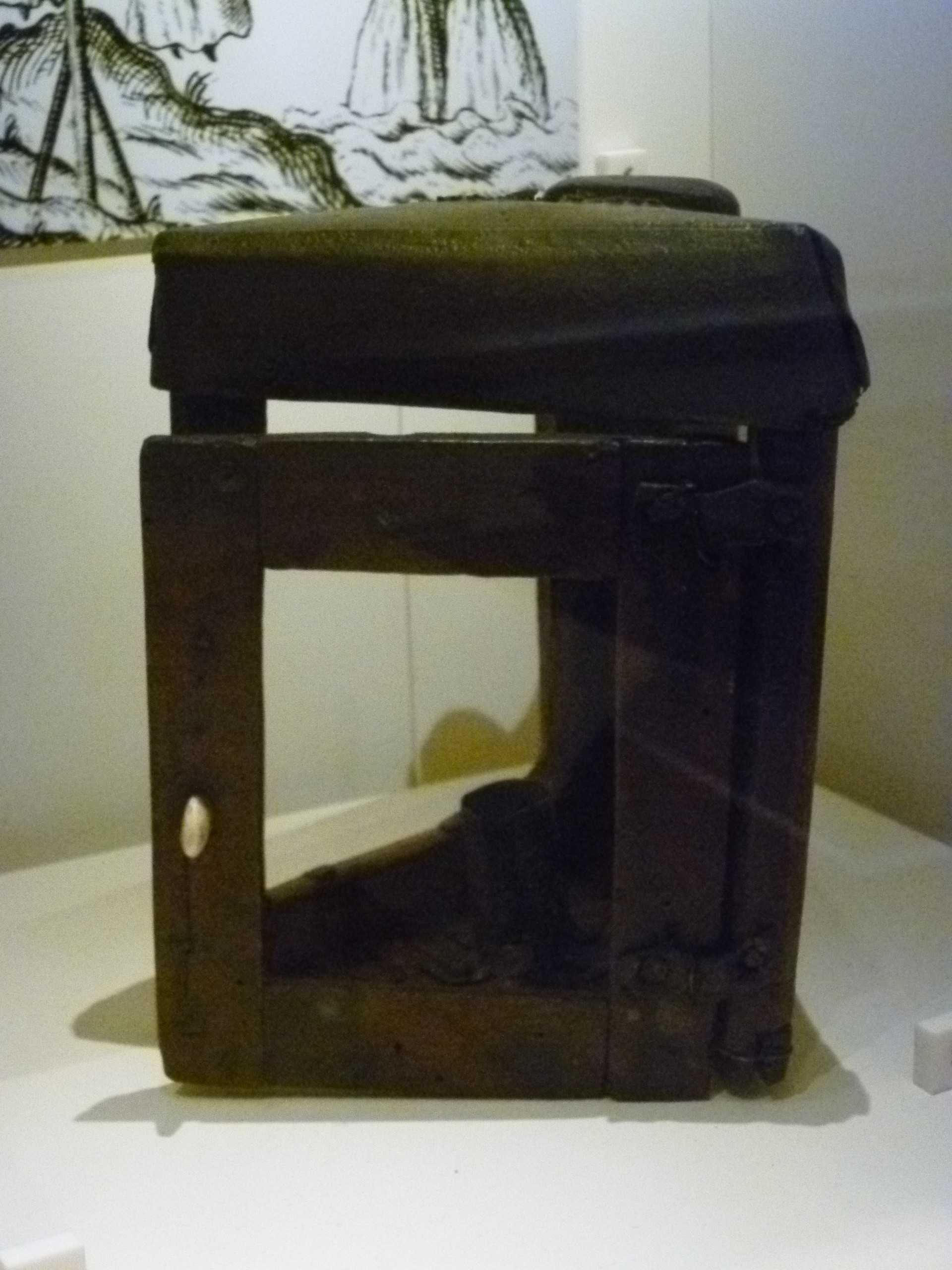 The lantern carried by Grizell Baillie on her nightly visits to her Covenanter father, Sir Patrick Hume, during his period of concealment in the vault beneath Polwarth Kirk in 1684.